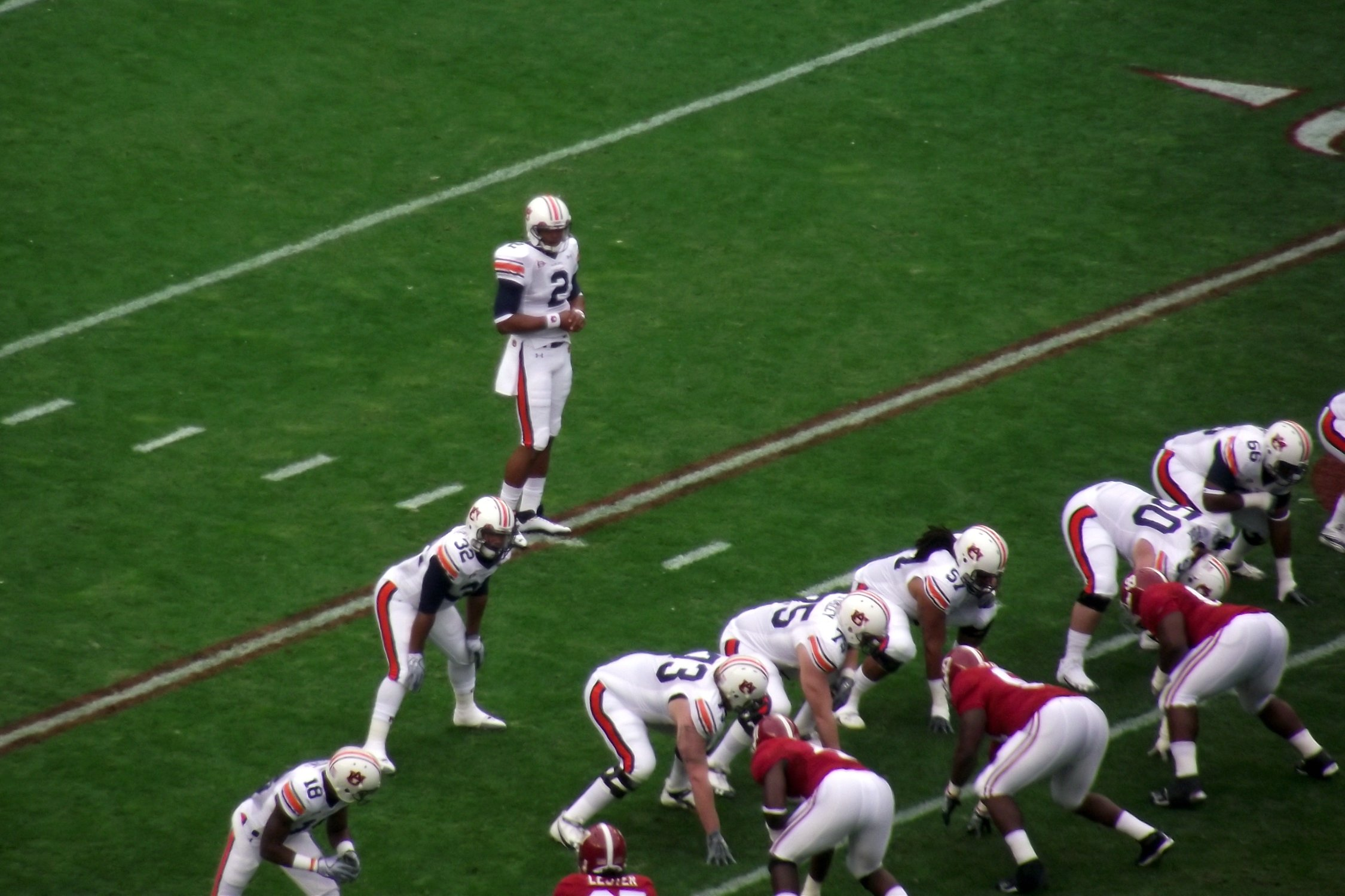 Cam Newton and Auburn's offense in the 2010 Iron Bowl